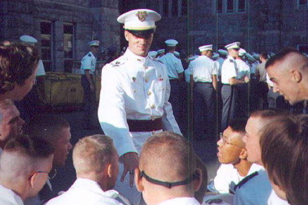 Fourth class cadets at West Point beg to touch the ring of a First Class Cadet, Aug 1997.